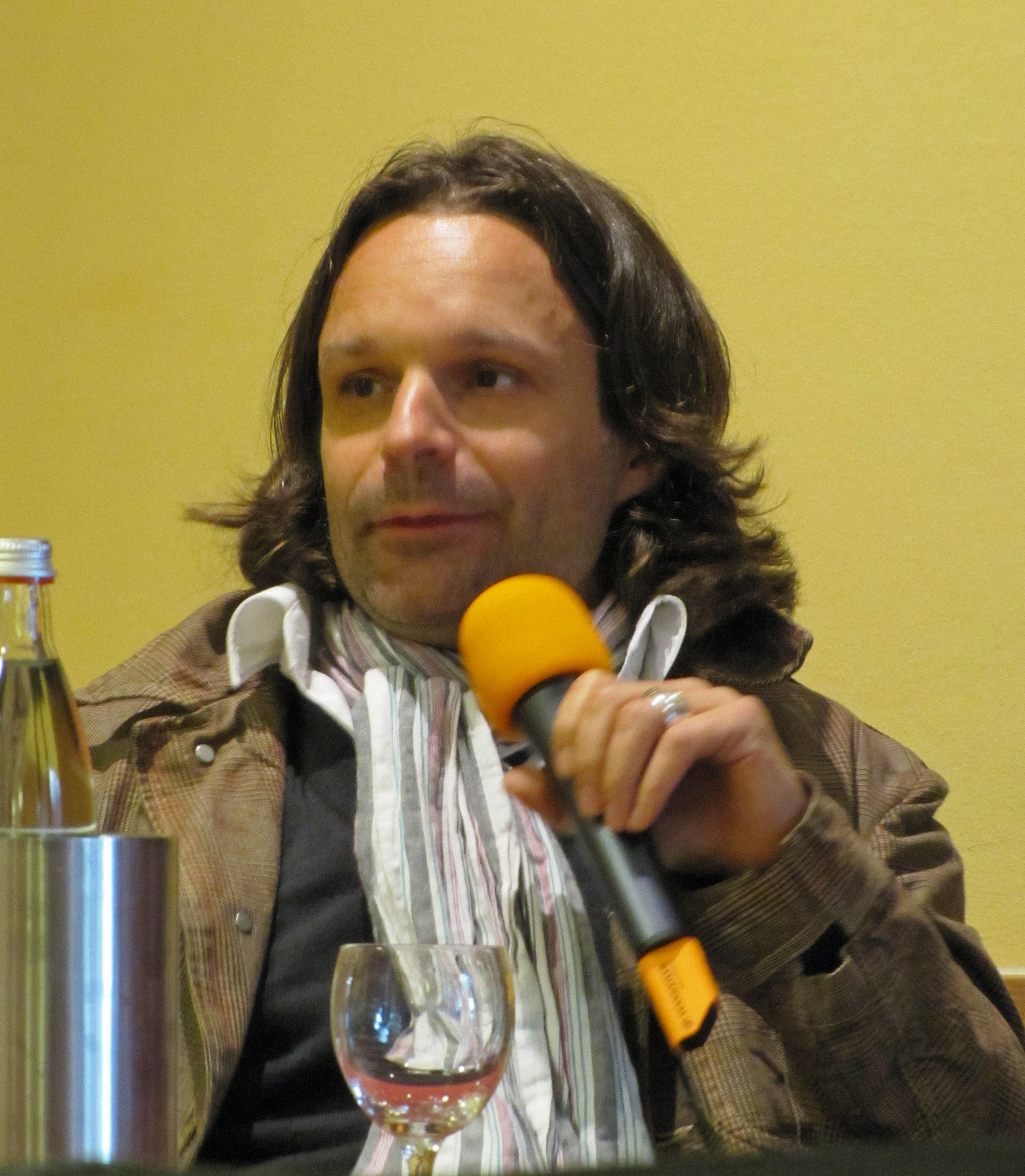 Moritz Rinke, German writer, 2010 in Frankfurt am Main.